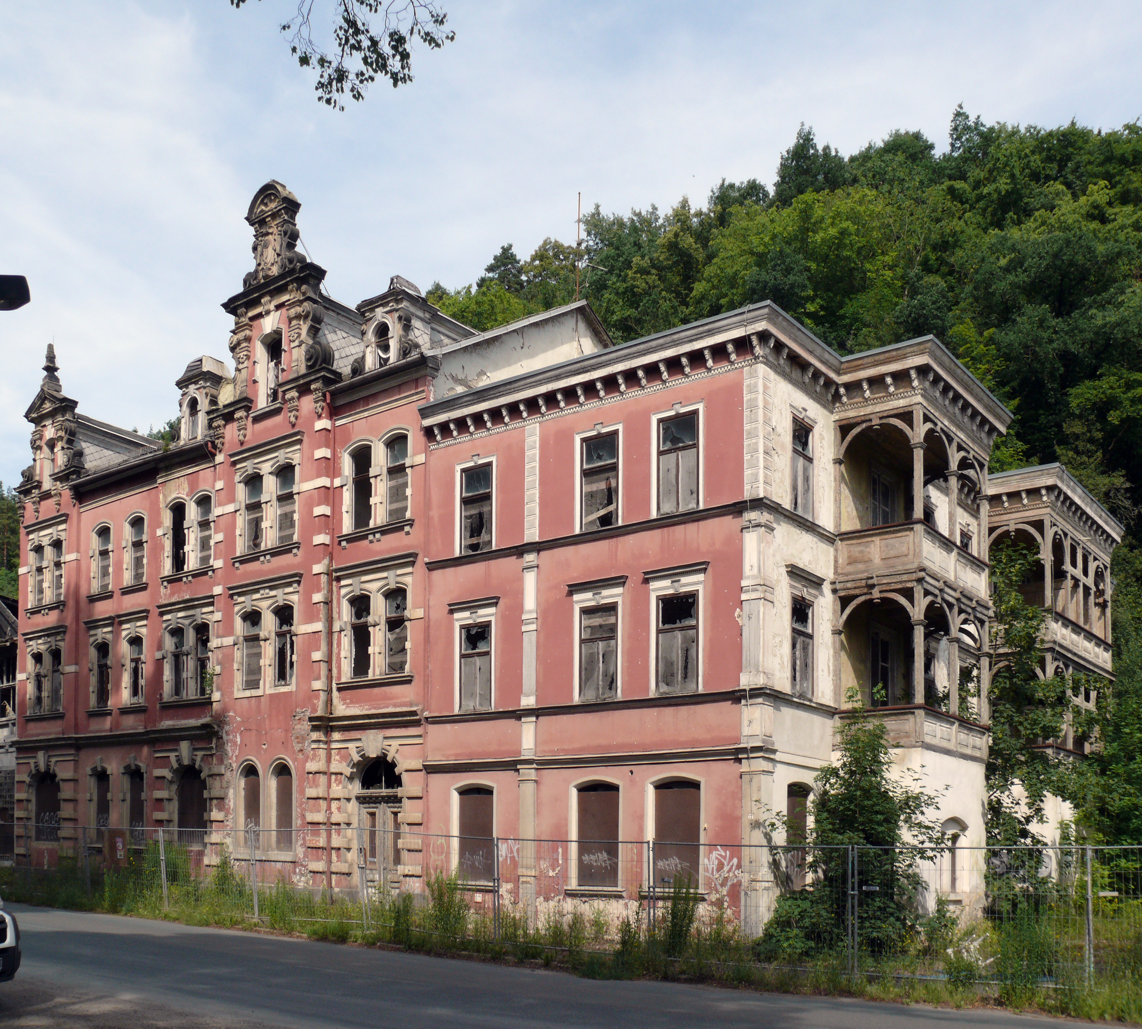 Bad Blankenburg (Thuringia, Germany): Southeast facade of the former Hotel Chrysopras (built about 1890?) at the entrance of the Schwarza valley, seen from east.